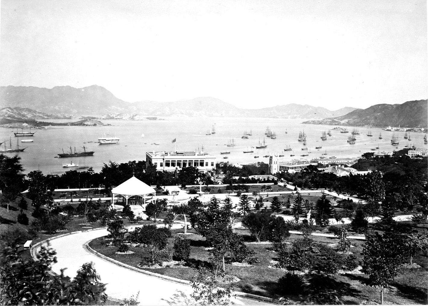 photo from Album of Hongkong Canton Macao Amoy Foochow